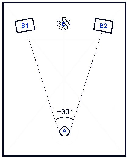 Listening to hi-fi music in a living room: listener and loudspeaker enclosures (from a stereophonic reproductive system) placement. Legend: A: listener B1 and B2: left and right loudspeaker enclosures C: central fictional point source because the listening angle loudspeaker enclosures / listener is approximately 30°. Note: other conditions must be respected, for example, the reverberation time of the room must not exceed a few tenths of a second.